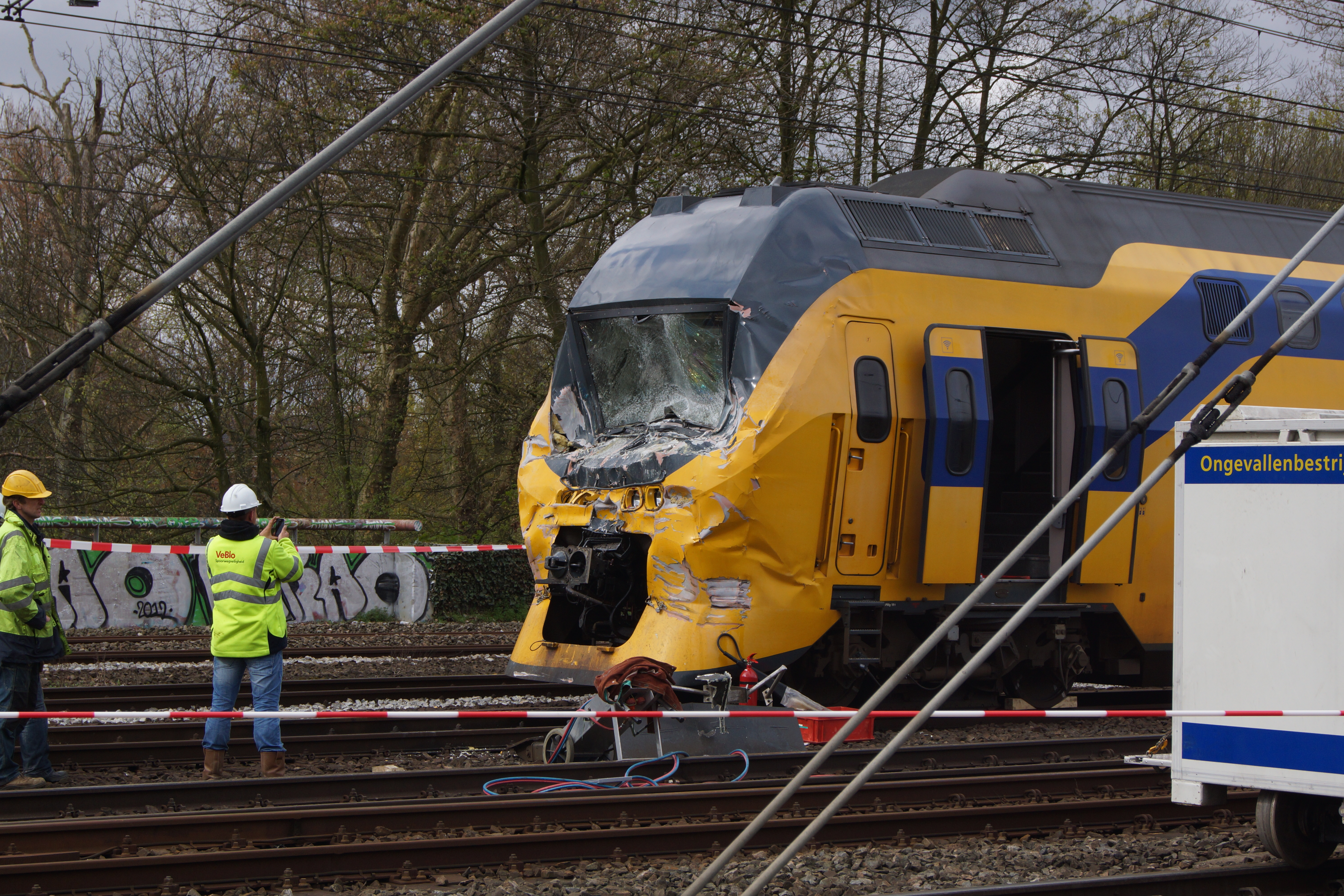 Damage to the Intercity train (VIRM 8711) after two trains collided at Westerpark, Amsterdam om April 21, 2012